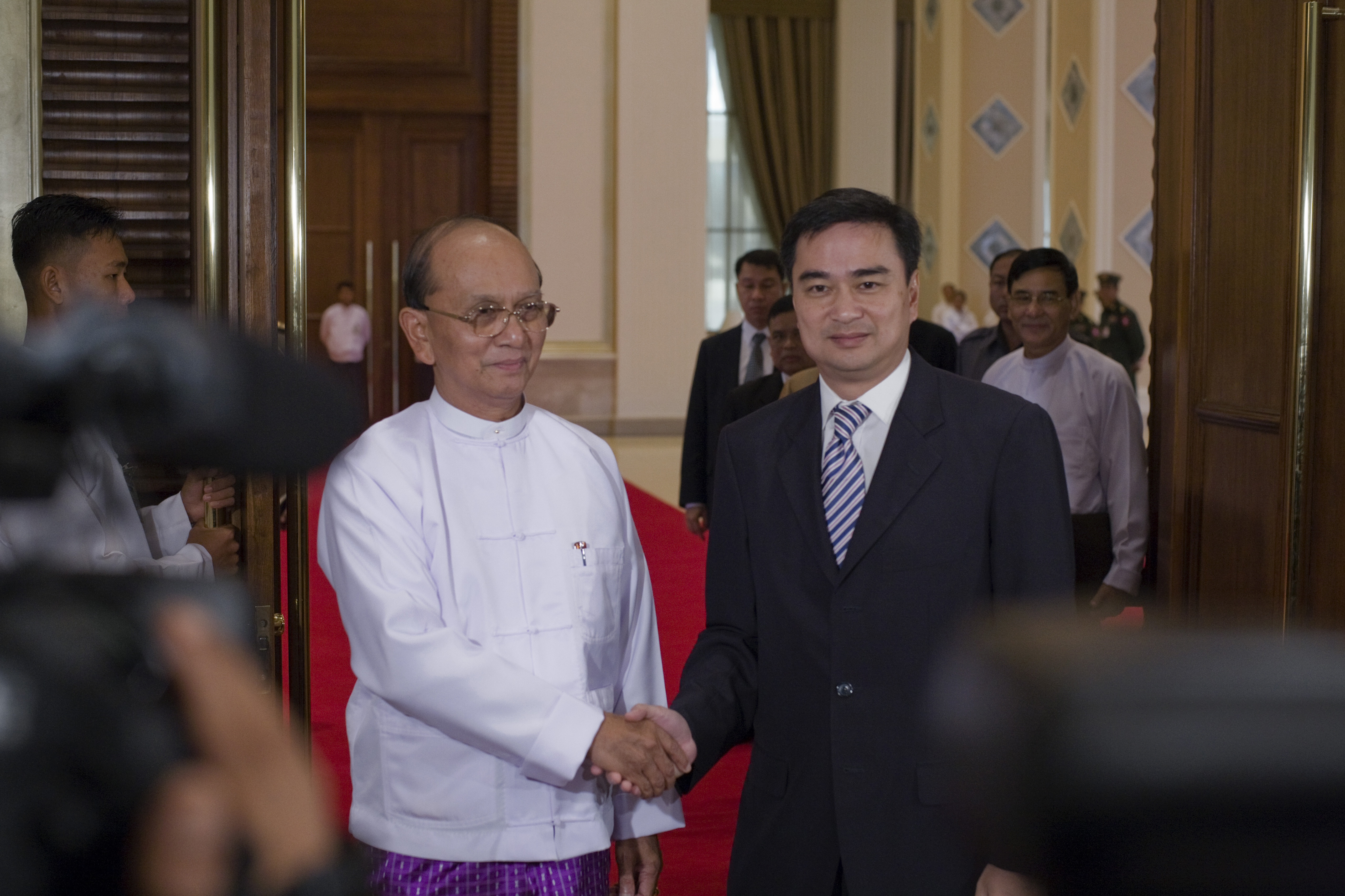 Burmese President Thein Sein shakes hands with Abhisit Vejjajiva